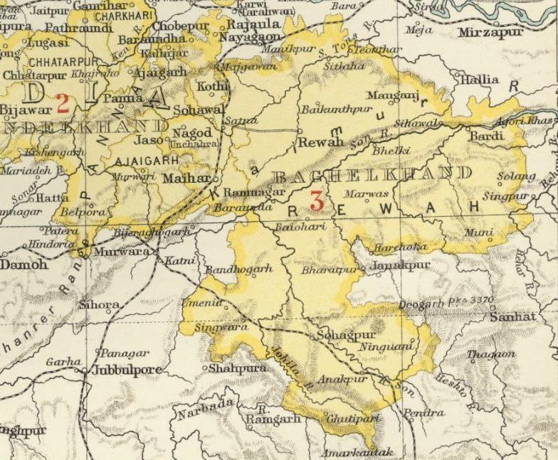 1909 Imperial Gazetteer of India Central India map section